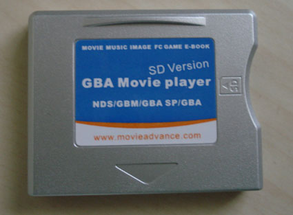 The GBA Movie Play SD version cartridge